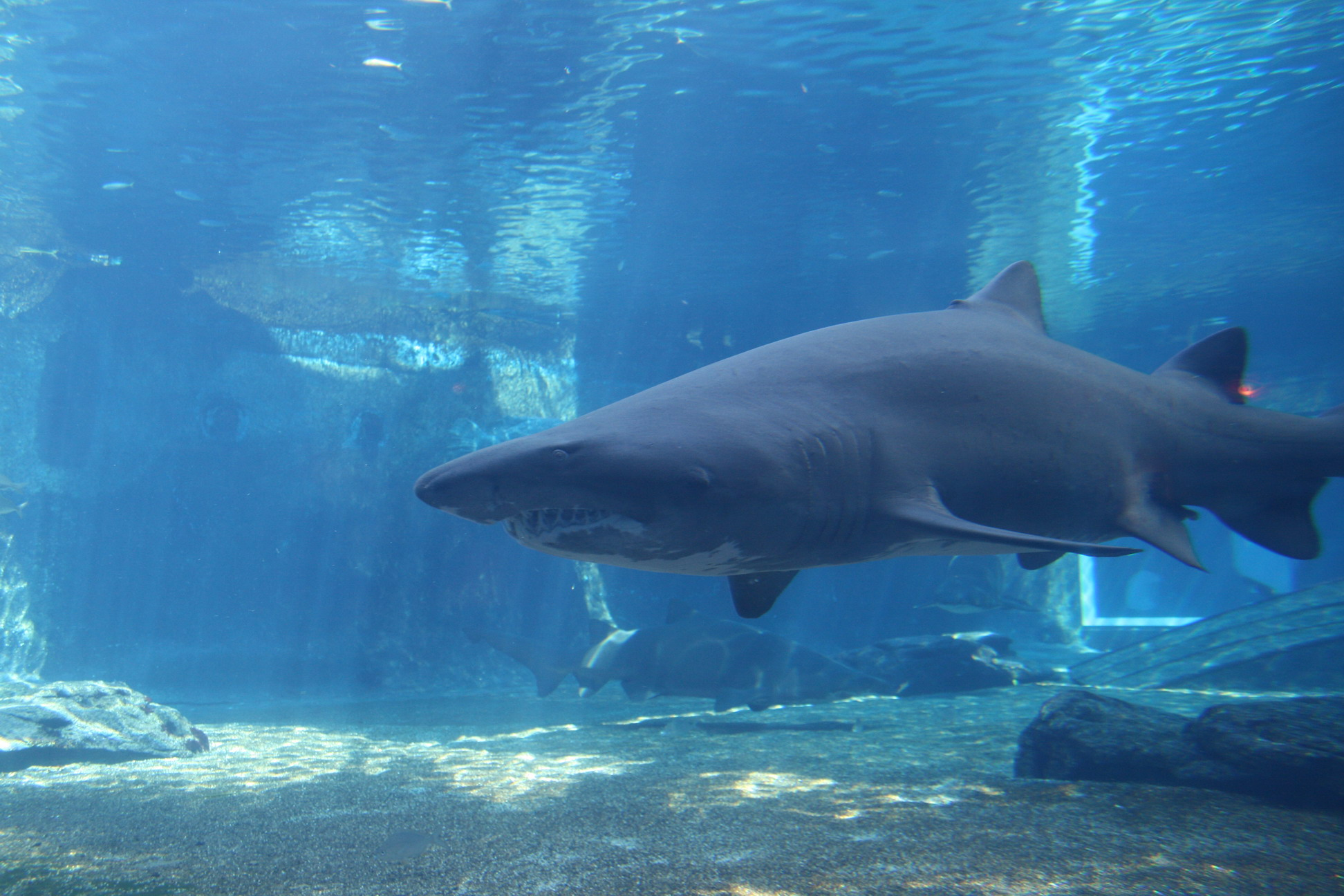 A spotted ragged-tooth shark (Carcharias taurus) in UShaka Sea World